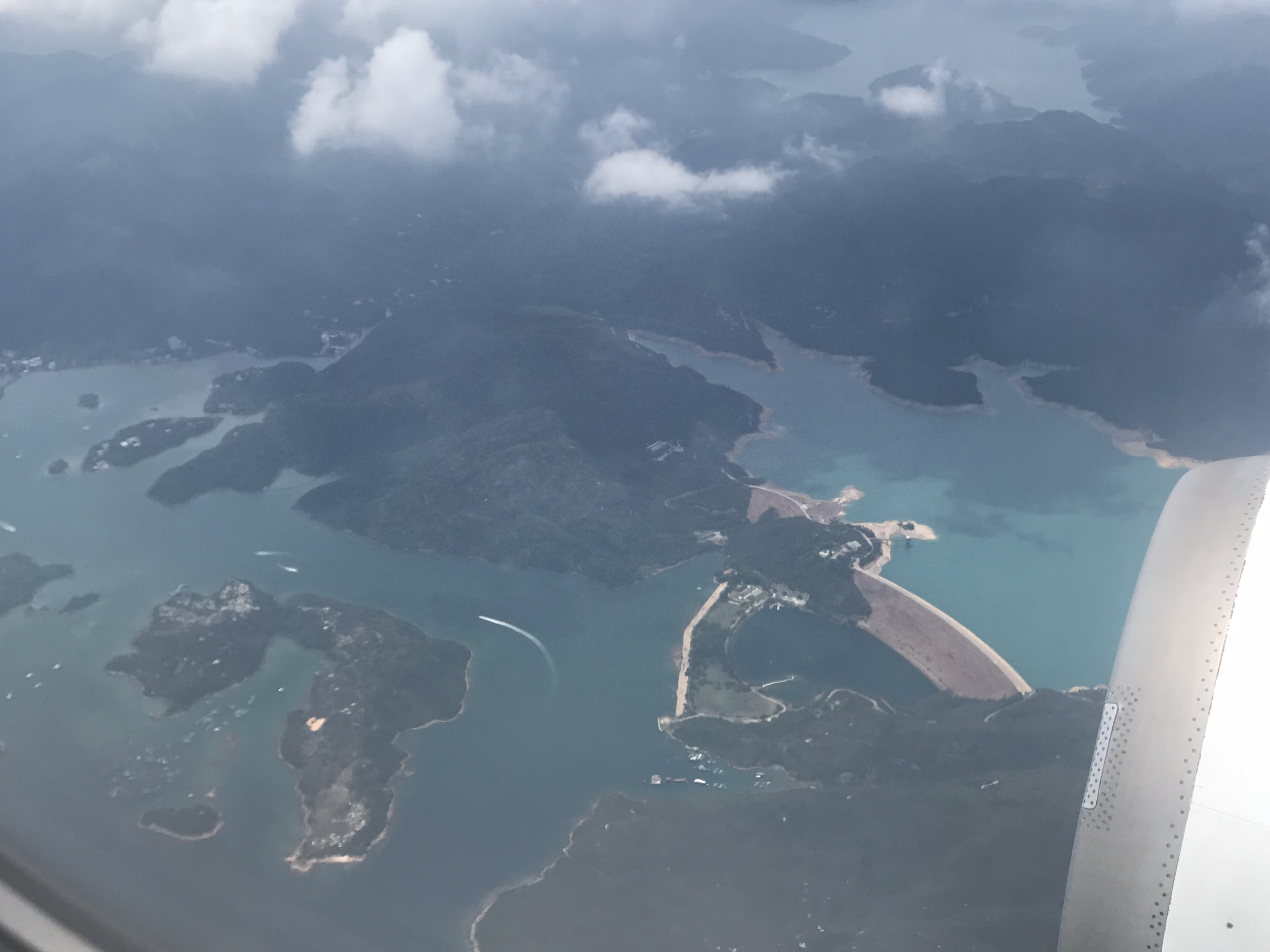 201806 High Island Reservoir